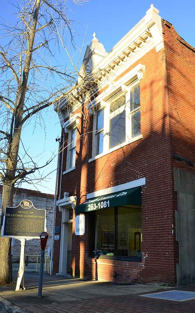 Office of Dr. J. Marion Sims in Montgomery, Alabama (Jan 2013).